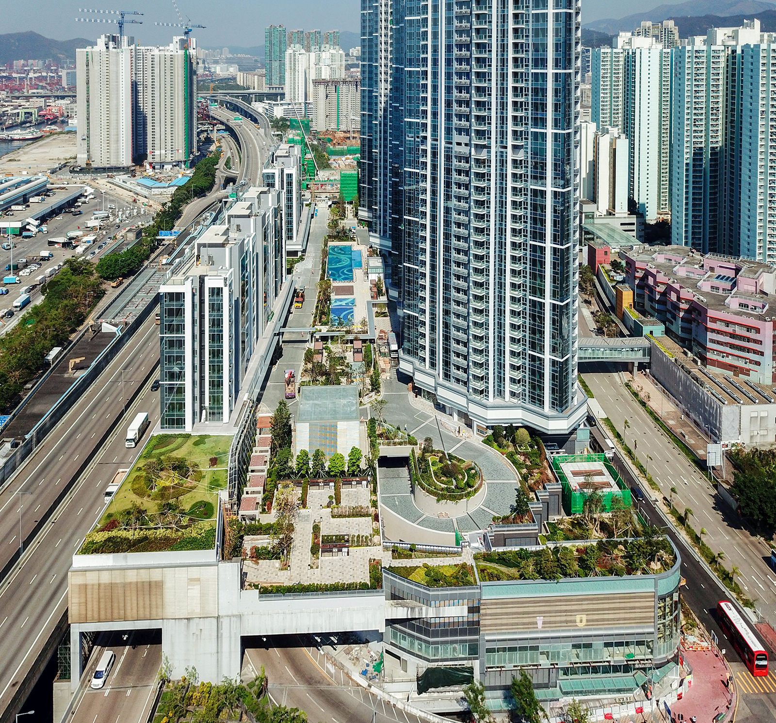 Cullinan West Podium